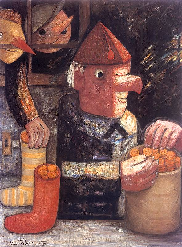 Tadeusz Makowski: The Miser